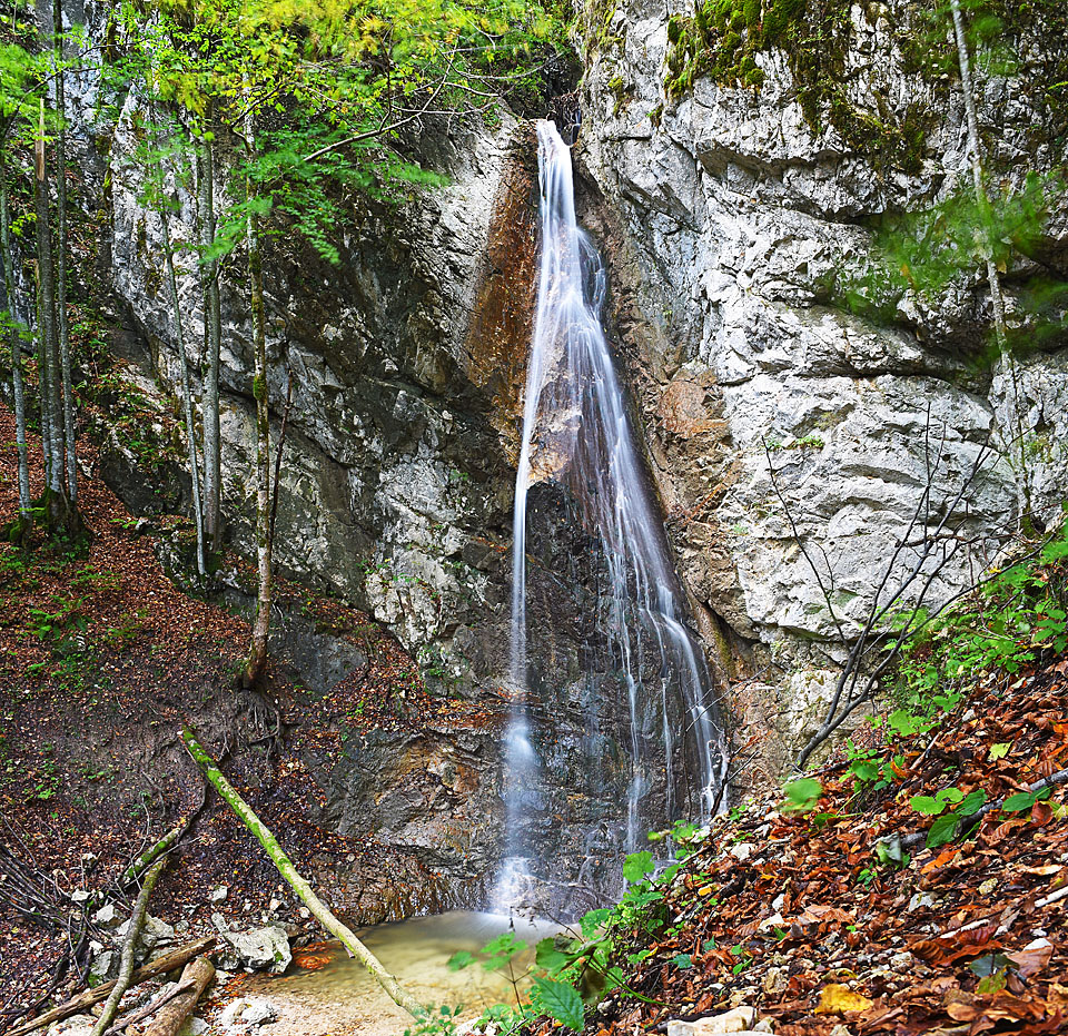 Tominčev slap (waterfall) is in the northern slopes og Dobrča, near the Podljubelj.